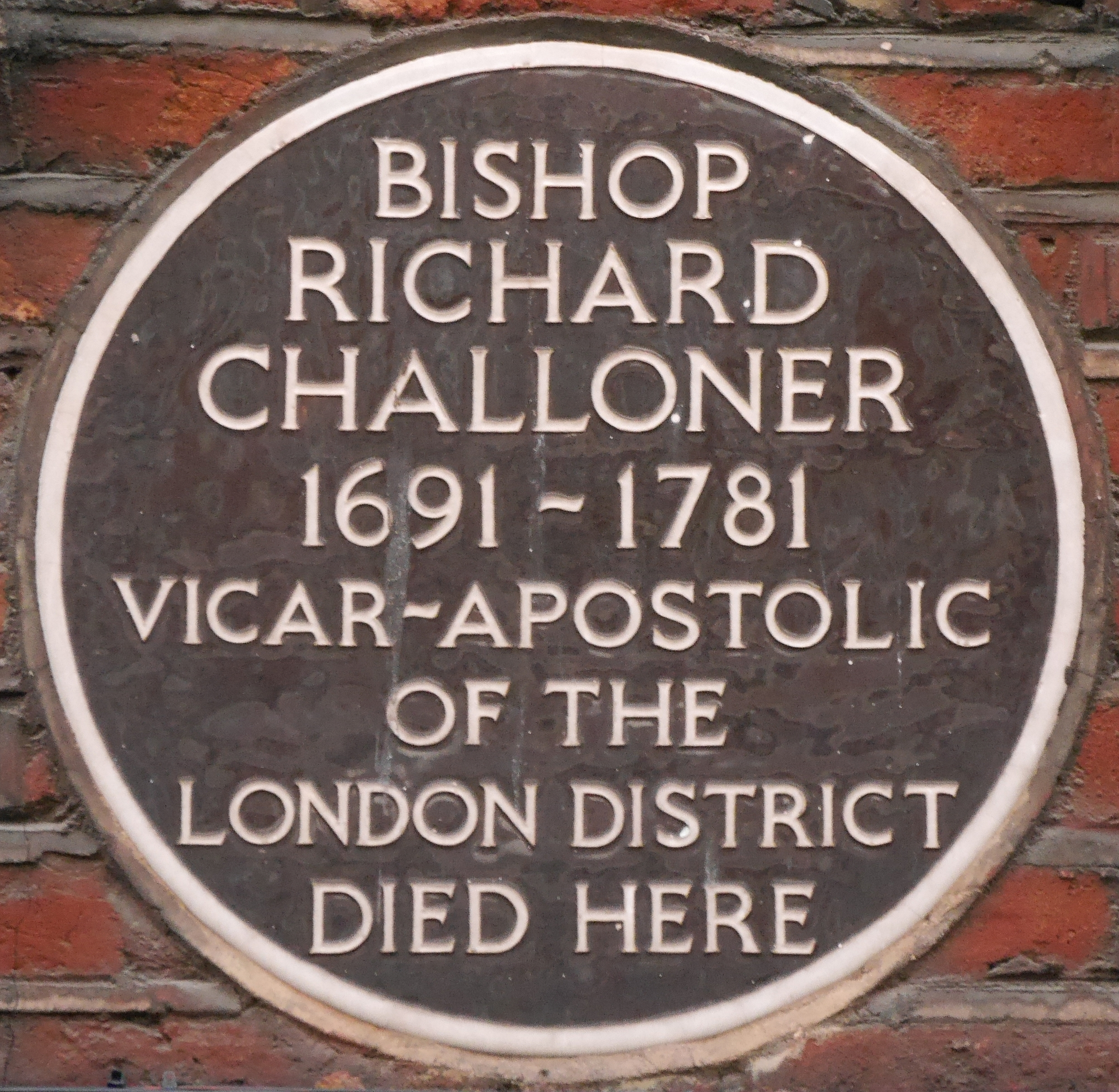 Blue plaque in London